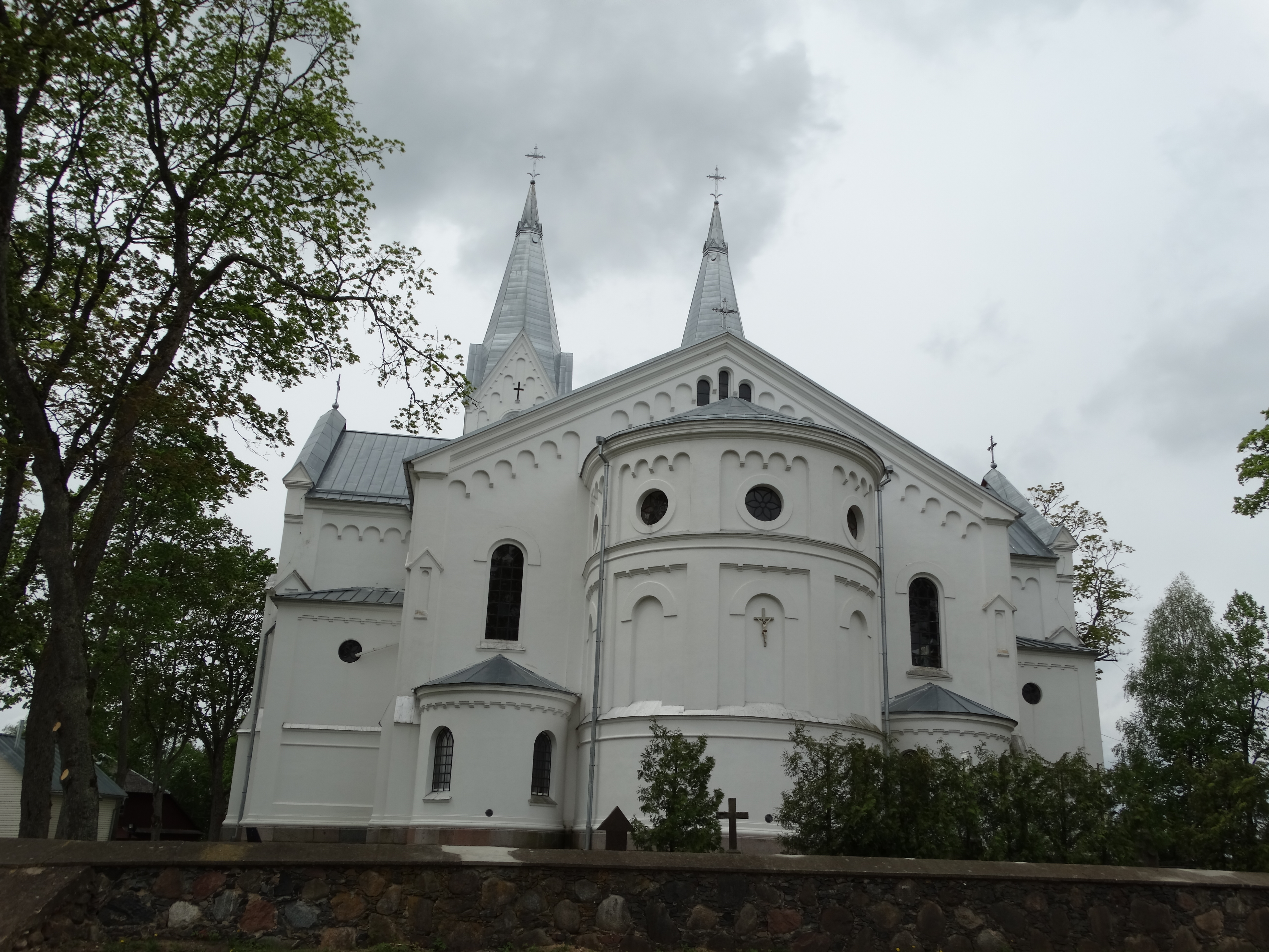 Church, Alanta, Molėtai district, Lithuania